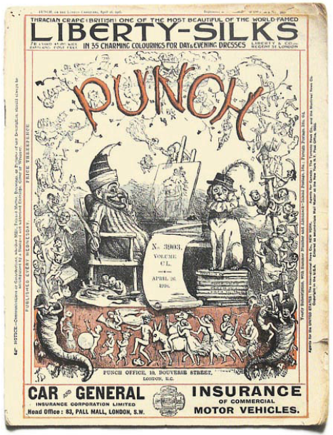 A scan of the cover of Punch magazine volume 150, number 3903, published in London in 1916 April 26.